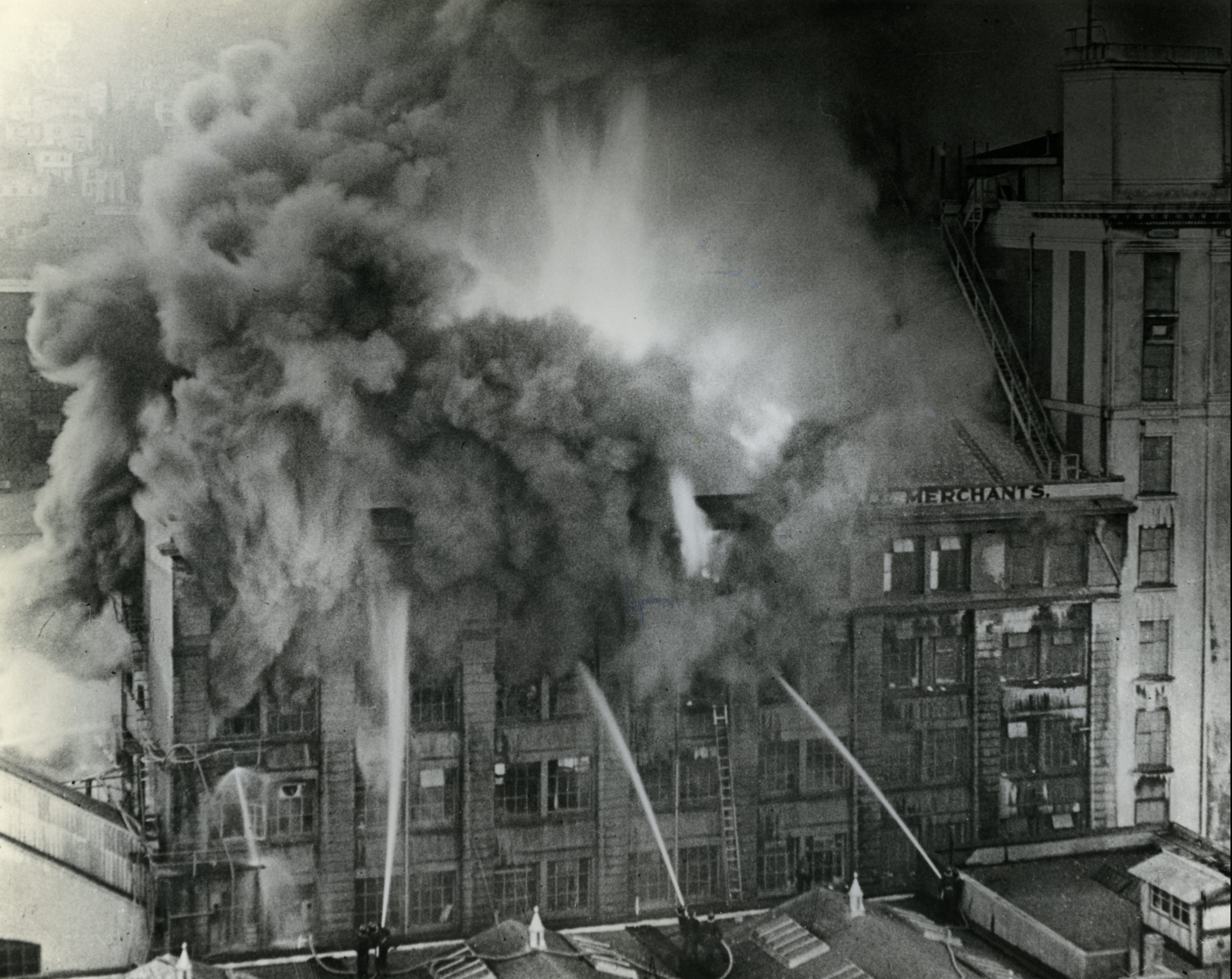 On 29 July 1952, fire ripped through the Hope Gibbons Building in Wellington, destroying boxes and boxes of New Zealand's public records. In the days before a proper national archive was established, government records were stored in a variety of Wellington buildings. A considerable collection of these was stored on several floors of the Hope Gibbons Building, on the corner of Inglewood Place/Taranaki Street and Dixon Street. Sadly, the fire destroyed files from the Marine Department, the Public Works Department, the Labour Department, and early records of the Lands and Survey Department (up to 1891). The event was highly significant in the history of recordkeeping in New Zealand. Because of the loss of such important records the 1957 Archives Act was passed, leading to the creation of the National Archives of New Zealand. Over the years Archives New Zealand has been based in a number of locations across Wellington, including Borthwick House on The Terrace, the Air New Zealand building on Vivian Street, and now in Mulgrave Street (the ex-Government Printing Office building). Although many records were lost, Archives New Zealand does hold a number of burnt files from the Hope Gibbons fire. When searching on the online finding aid Archway, you may notice that some items have been annotated to state that the item was damaged by the fire (for example: These items have preservation restrictions in place, preventing them from being issued in the Reading Room. This photograph of the fire is from a series of records relating to Archival Facilities and Personnel. Archives reference: ARCH 458 Box 1/c AR1/5 For updates on our On This Day series and news from Archives New Zealand, follow us on Twitter Material from Archives New Zealand